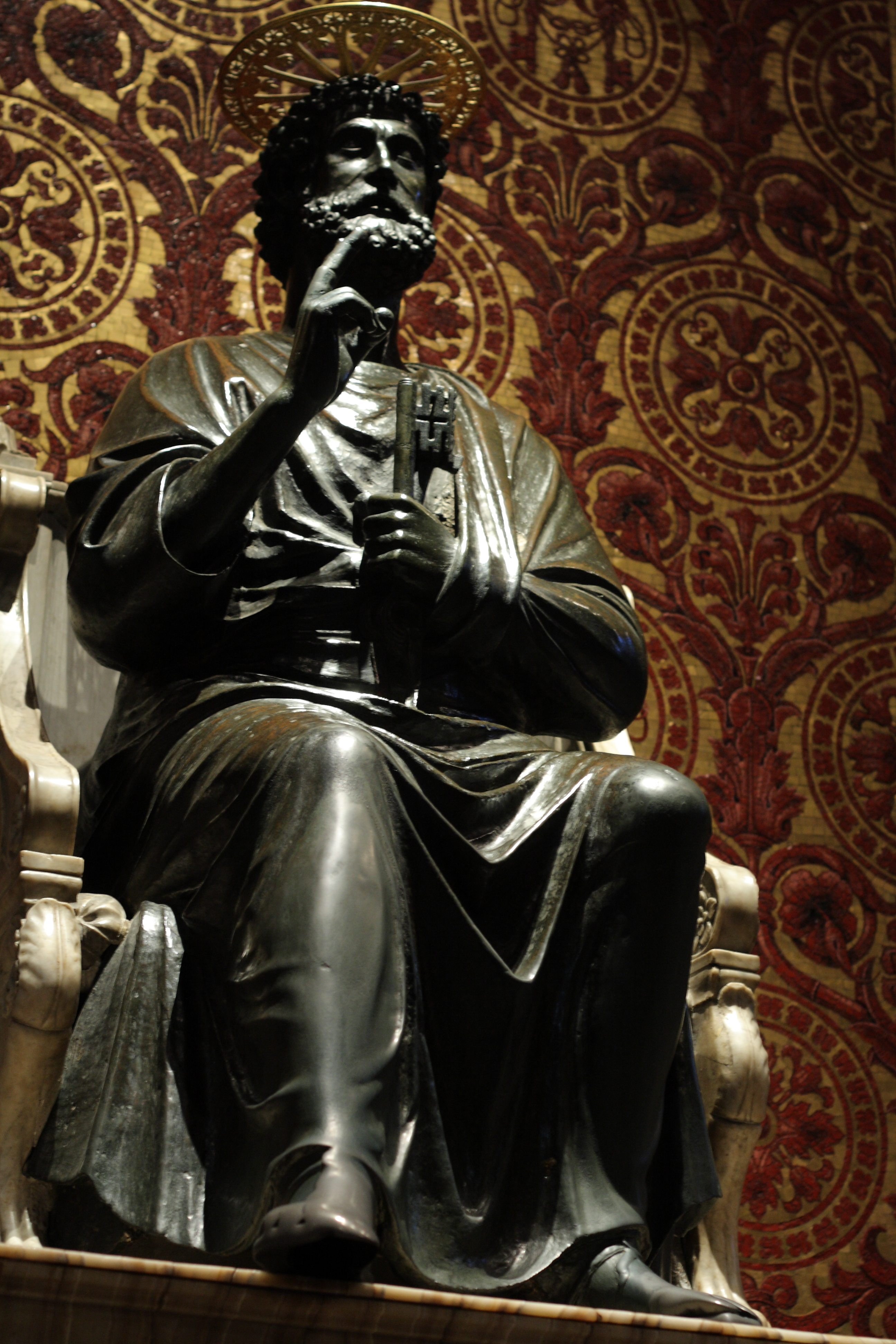 Statue of St. Peter Enthroned, attributed to Arnolfo di Cambio, in St. Peter's Basilica. The right foot is worn from pilgrims (and tourists) kissing and touching it.